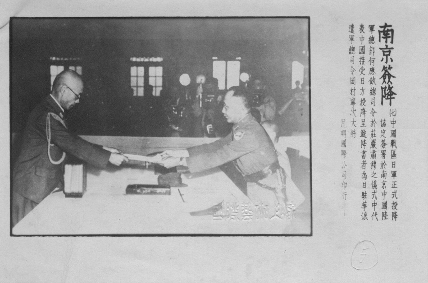 Asasaburō Kobayashi presenting the Japanese Instrument of Surrender to general He Yingqin at Nanjing on 9 September 1945. There is an error in the explain next to the photo: the person who submitted the Japanese Instrument of Surrender in the photo is Asasaburō Kobayashi instead of Commander-in-chief of the China Expeditionary Army Yasuji Okamura